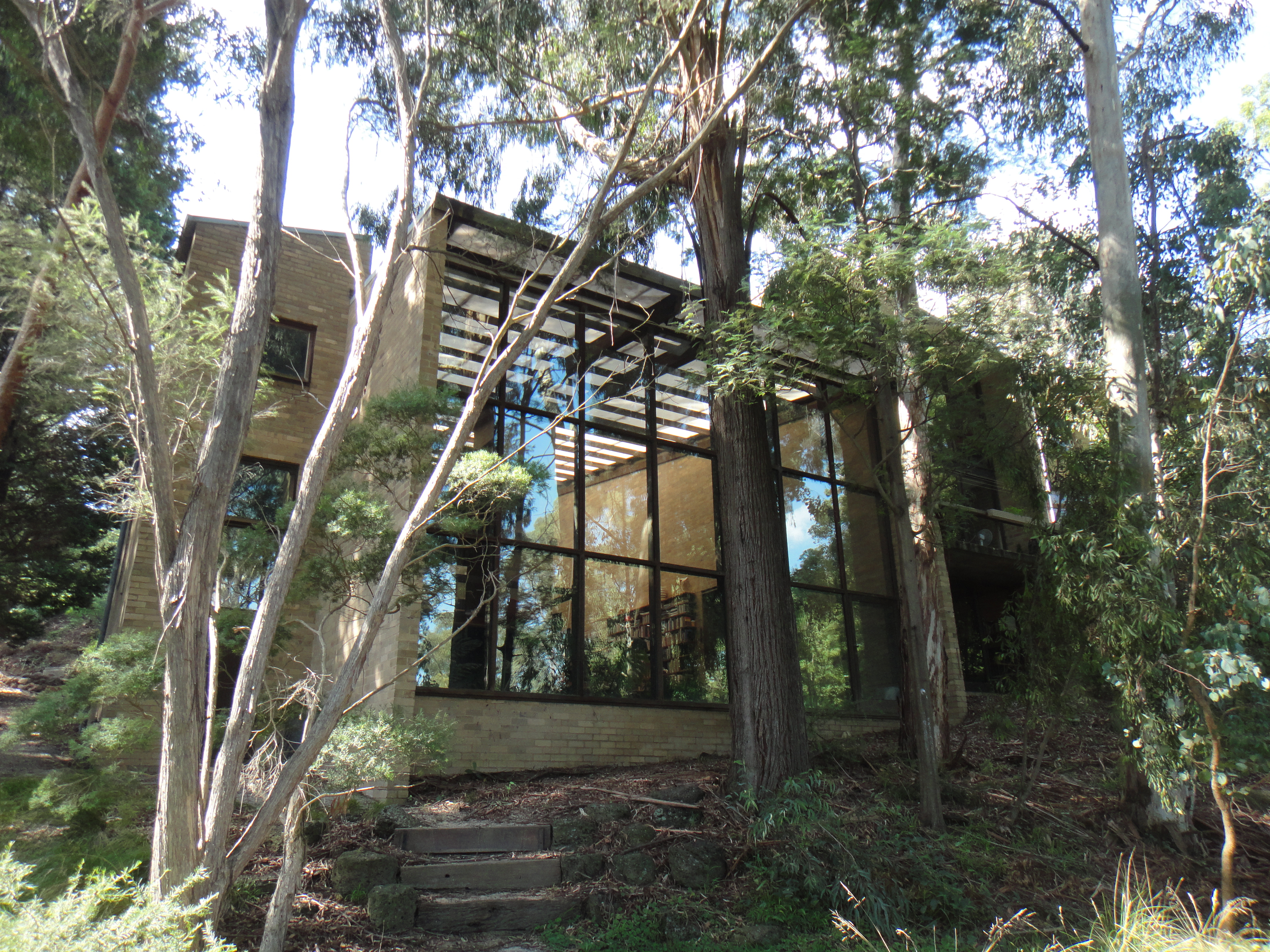 front view